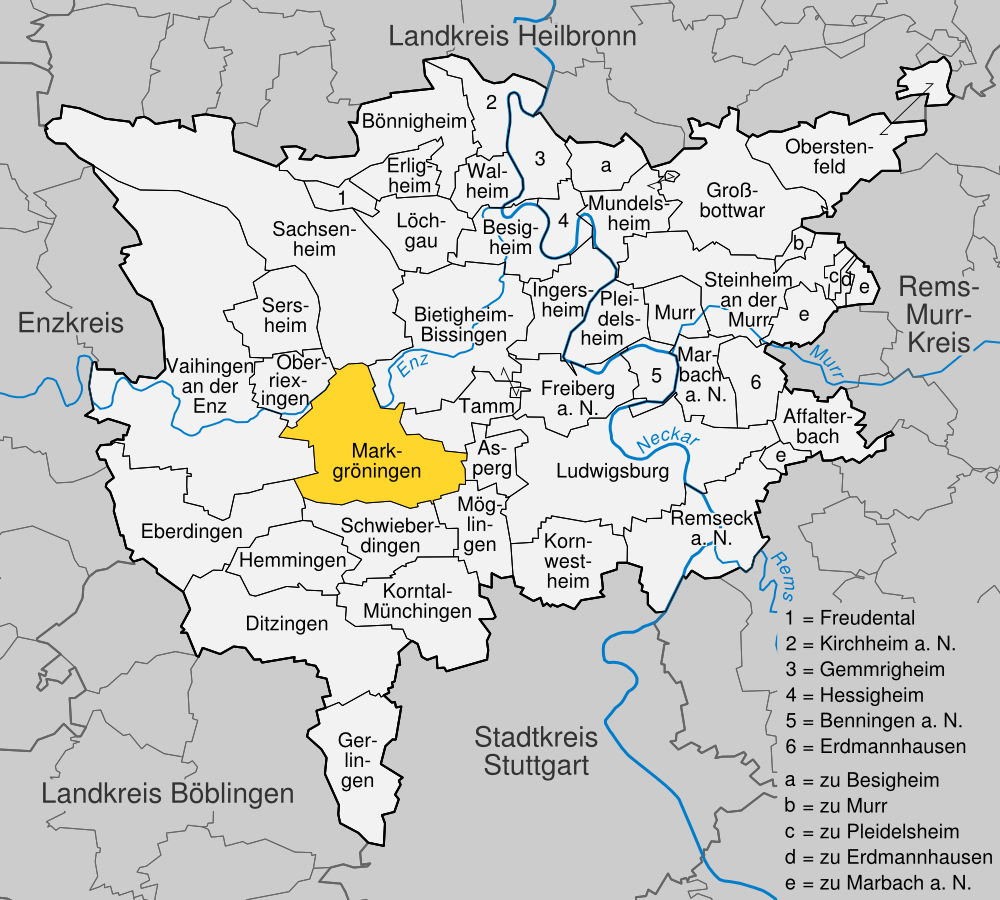 position of Markgröningen within distict of Ludwigsburg, Baden-Württemberg, Germany